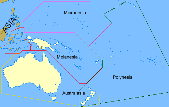 Regions of Oceania. Regions of Oceania: In its narrow usage Oceania refers to Polynesia (including New Zealand), Melanesia (including New Guinea) and Micronesia. In wider usage it includes Australia. It may also include the Malay archipelago. In uncommon usage it includes islands such as Japan and the Aleutian Islands. Limburgs: Regio's van Oceanië.